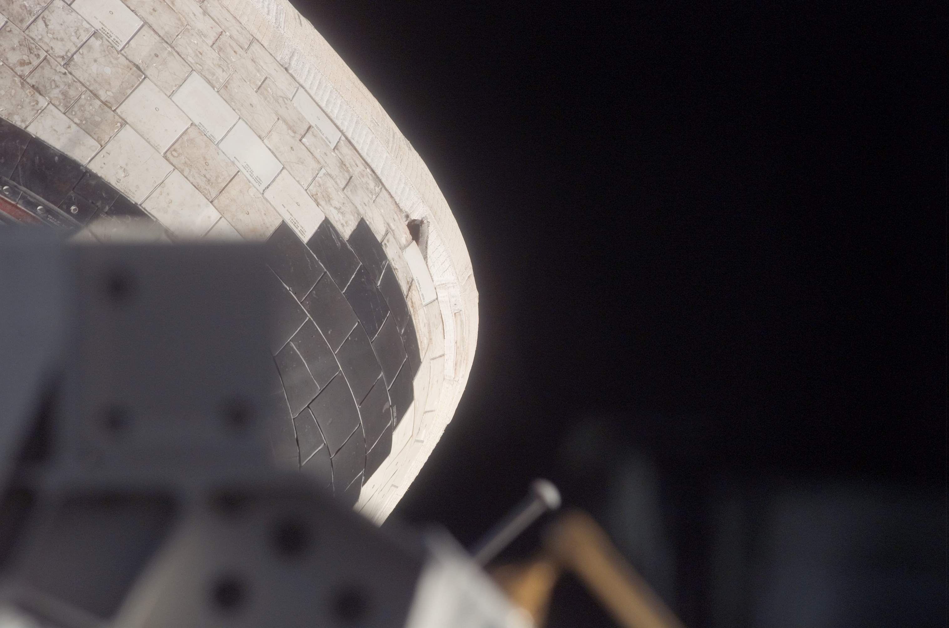 A gap in a thermal blanket on the port side of the shuttle, was studied closely by mission control personnel after a STS-117 crewmember recorded a series of survey photos with a digital still camera